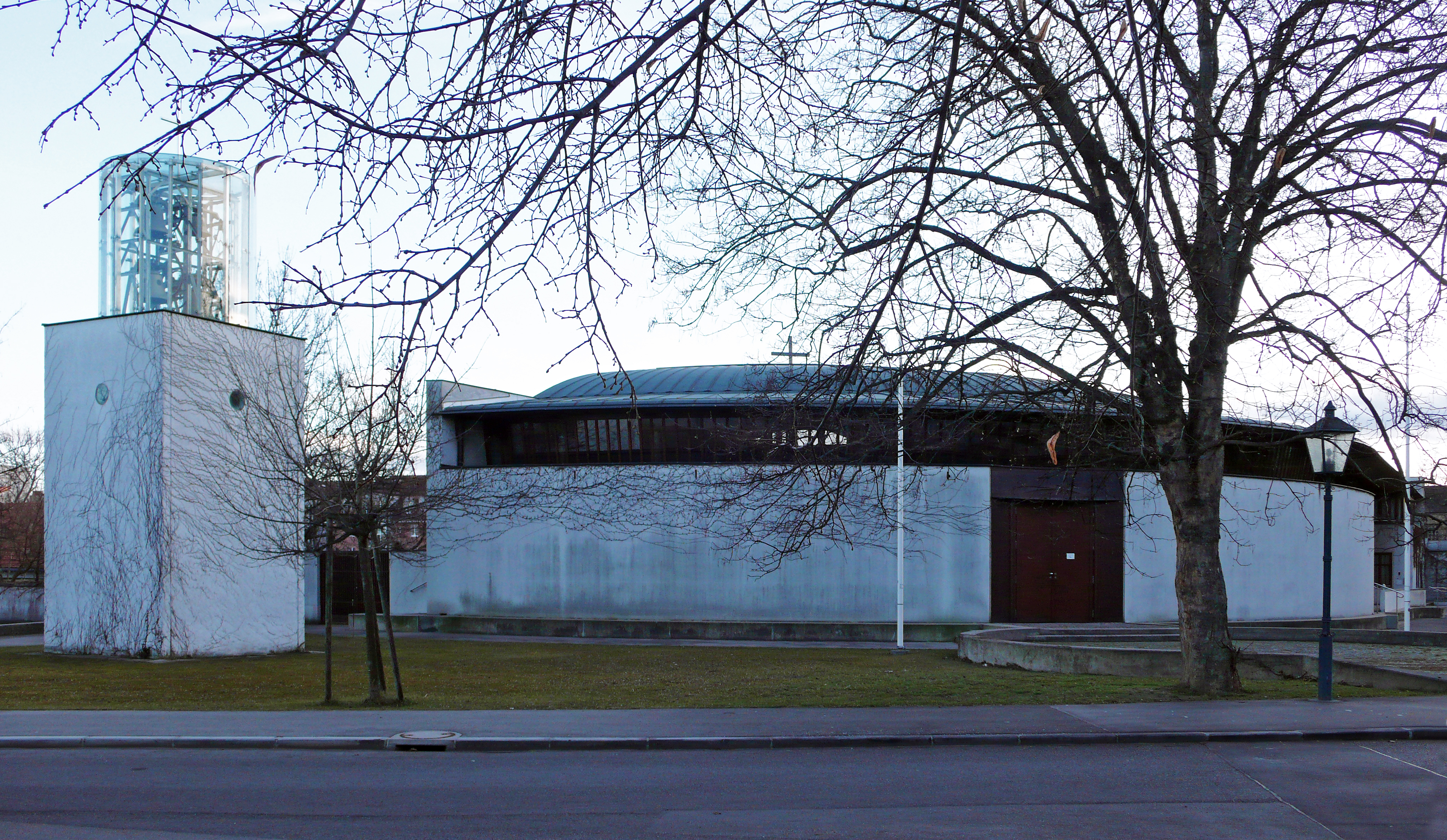 Parish church Saint Joseph with bell tower, Baden, Lower Austria.